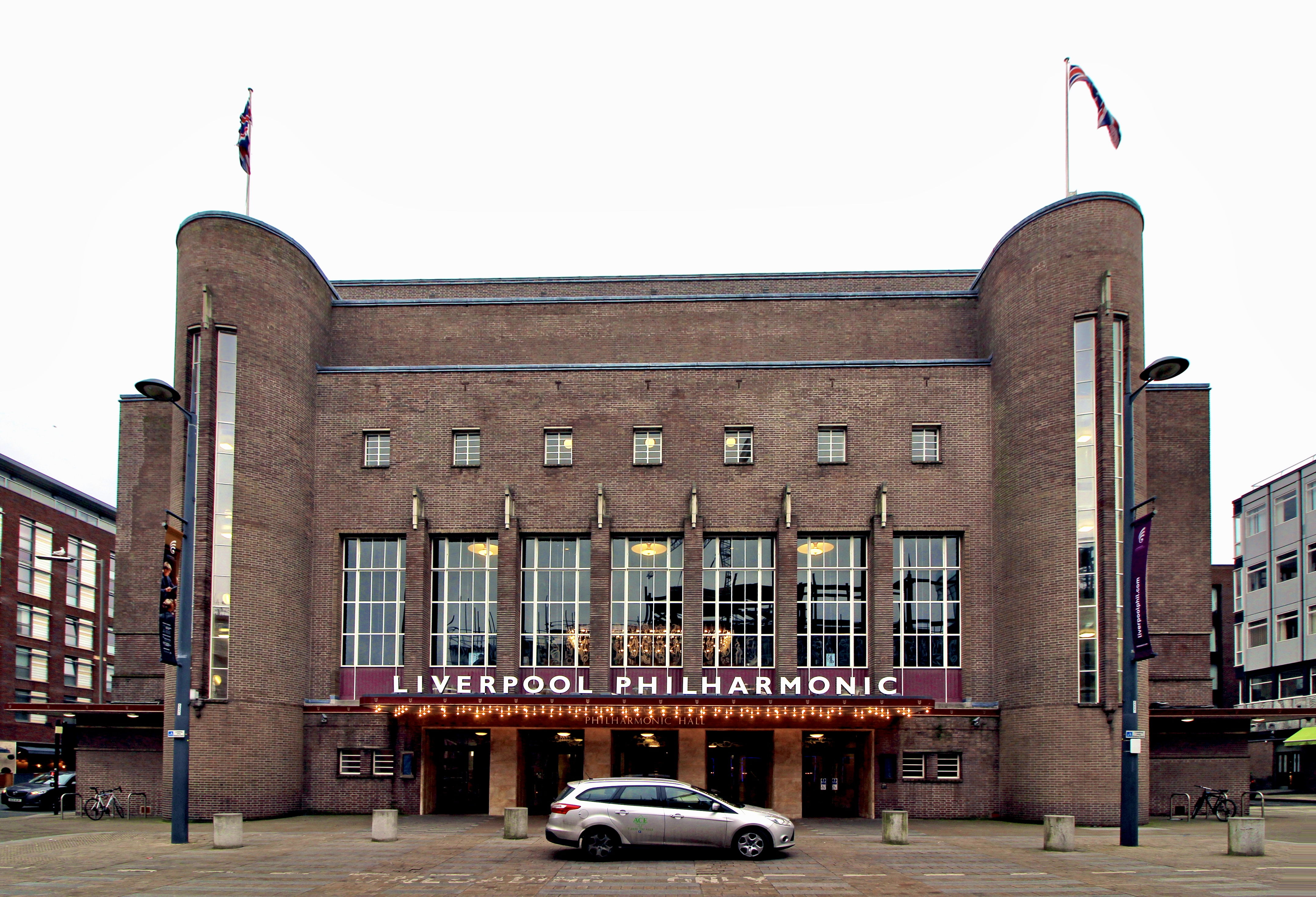 Front elevation of the Philharmonic Hall, Liverpool, seen across Hope Street. A Grade II listed art deco building of the 1930s.